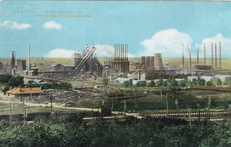 Postcard of Showa Steel Works, Anshan, Manchukuo